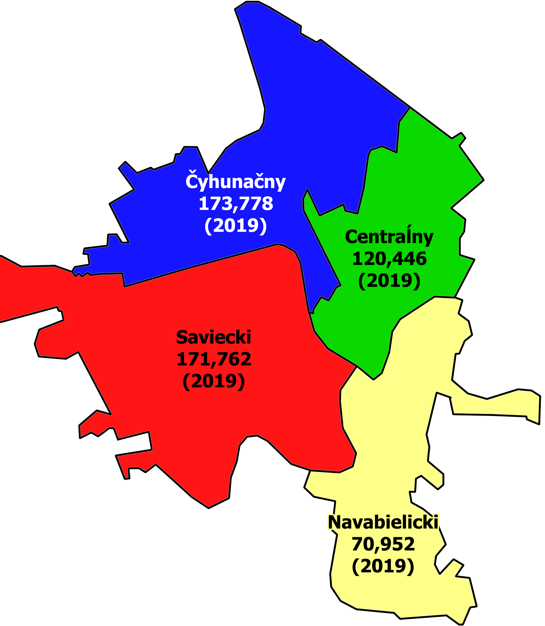 Districts of Homieĺ (Belarus)